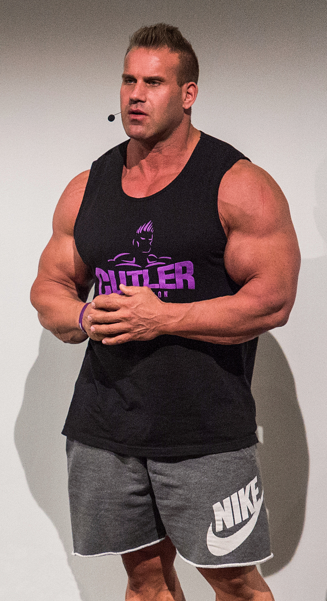 Jay Cutler – Loaded 056